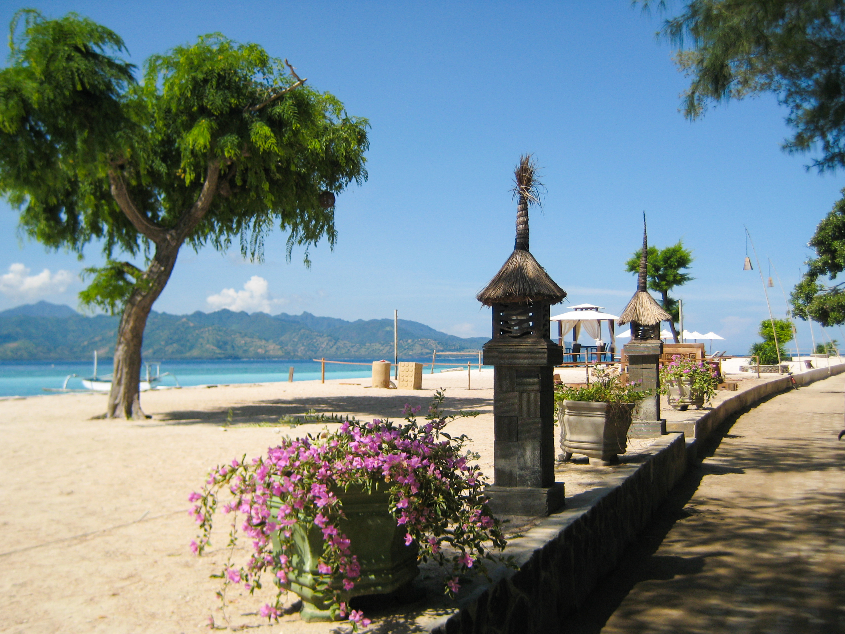 Gili Trawangan beach in 2010